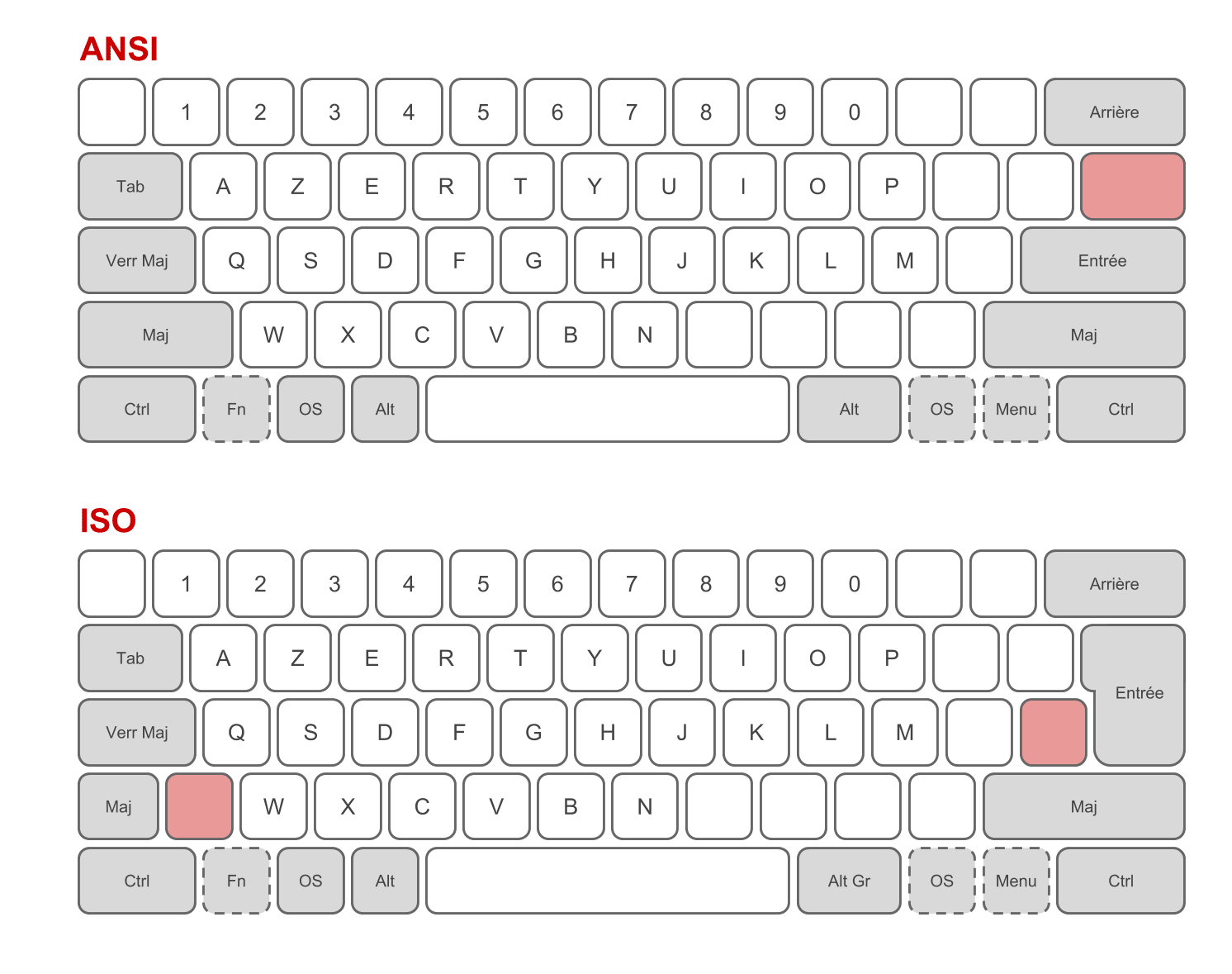 A comparison of two physical (mechanical) computer keyboard layout standards: ISO (common in Europe) and ANSI (common in North America and Asia). Keys that are not present in both standards are highlighted in pink. Keys that may not be present on all models are shown with dotted outlines. Note that this image shows physical layouts as they most commonly appear and may not fully represent said standards. Note that the labels are only for general orientation and do not represent the visual layout of any country/language.